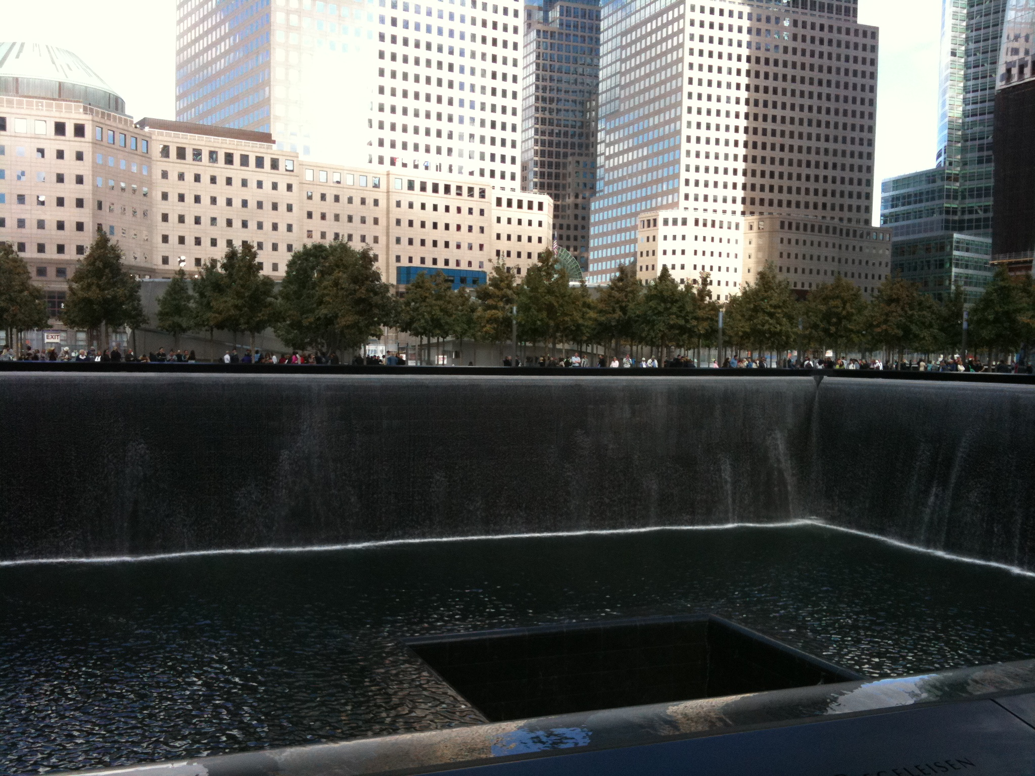 This is a view of the fountain located within the site of the South Tower of the World Trade Center, which was destroyed on September 11, 2001. The two fountains, one for each fallen tower, are titled "Reflecting Absence" and were designed by architect Michael Arad and landscape architect Peter Walker.